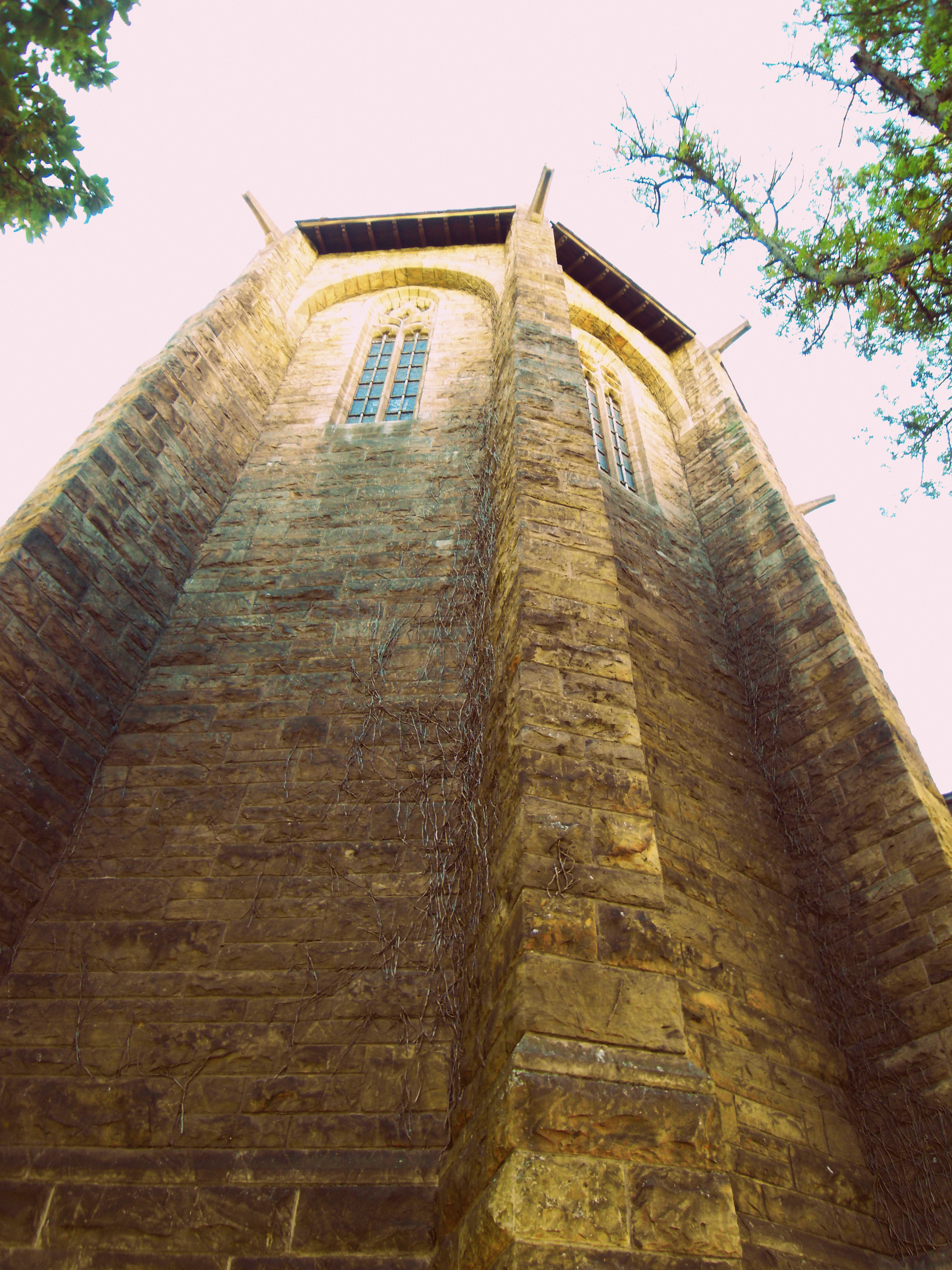 St George's Cathedral (in full, The Cathedral Church of St George the Martyr) is the Anglican cathedral in Cape Town, South Africa. It is the seat of the Archbishop of Cape Town.